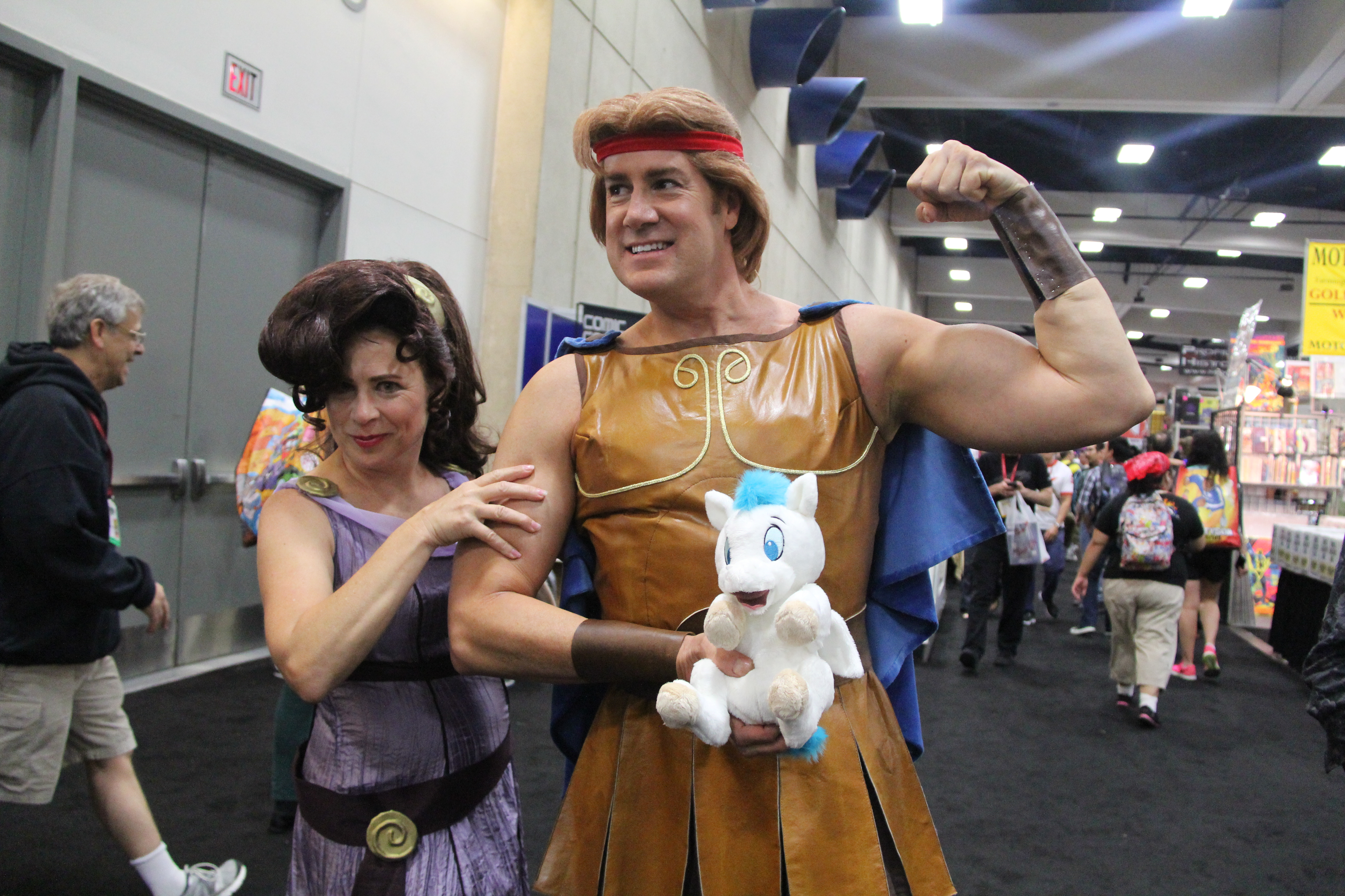 IMG_0428 Cosplay at San Diego Comic-Con (SDCC 2014).